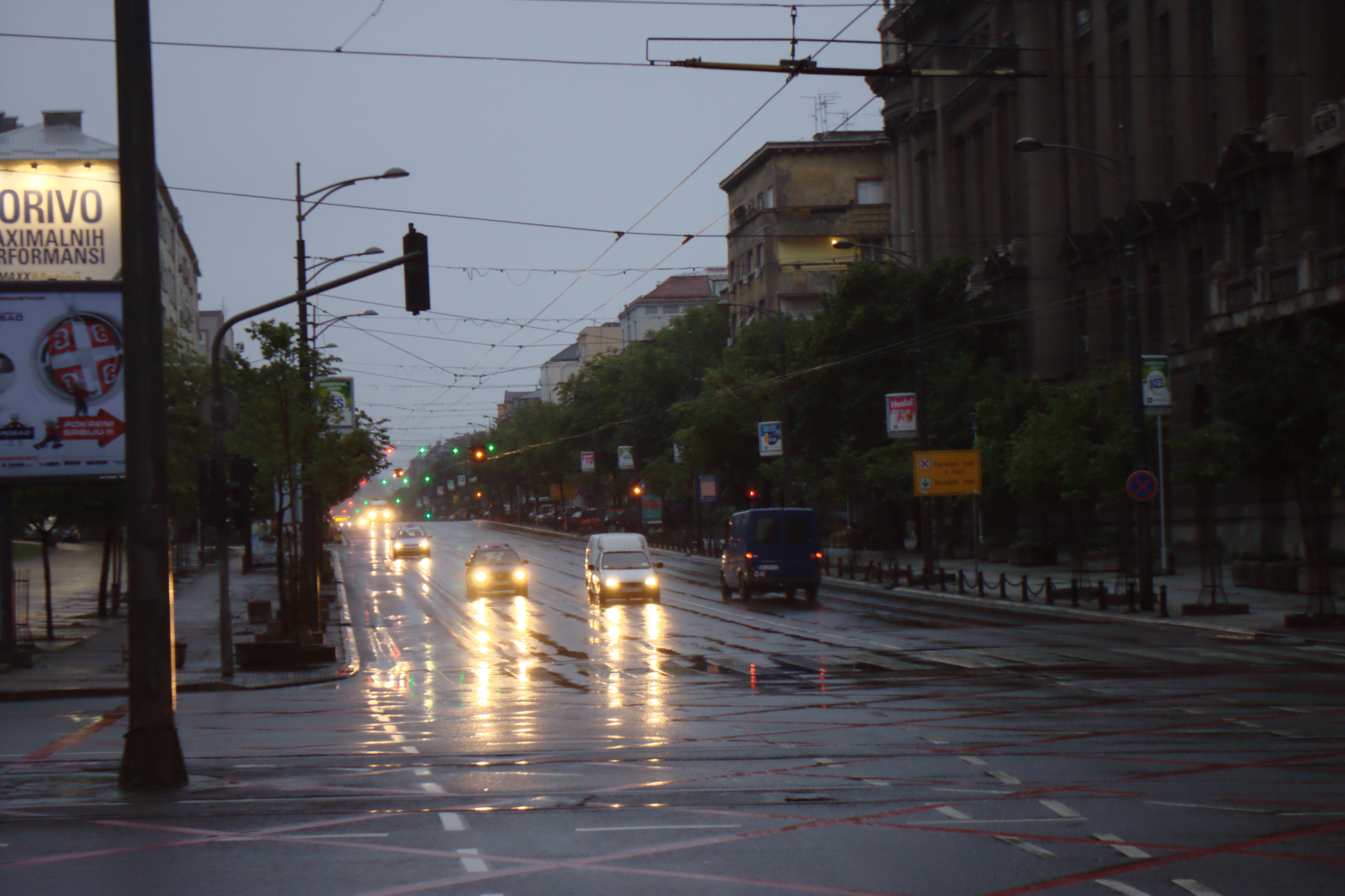 Kneza Miloša Street in central Belgrade